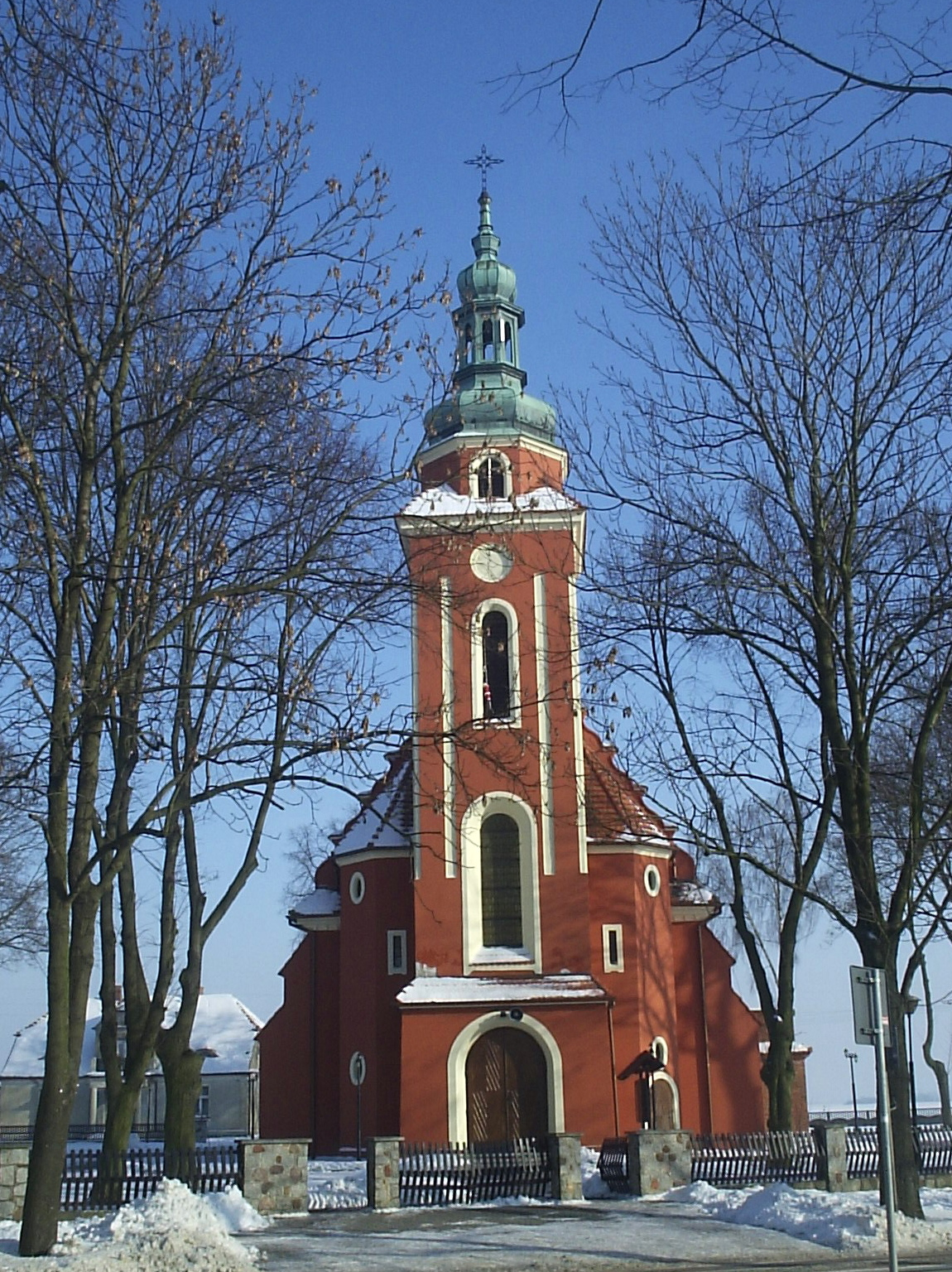 Holy Trinity church in Zimnowoda, Poland